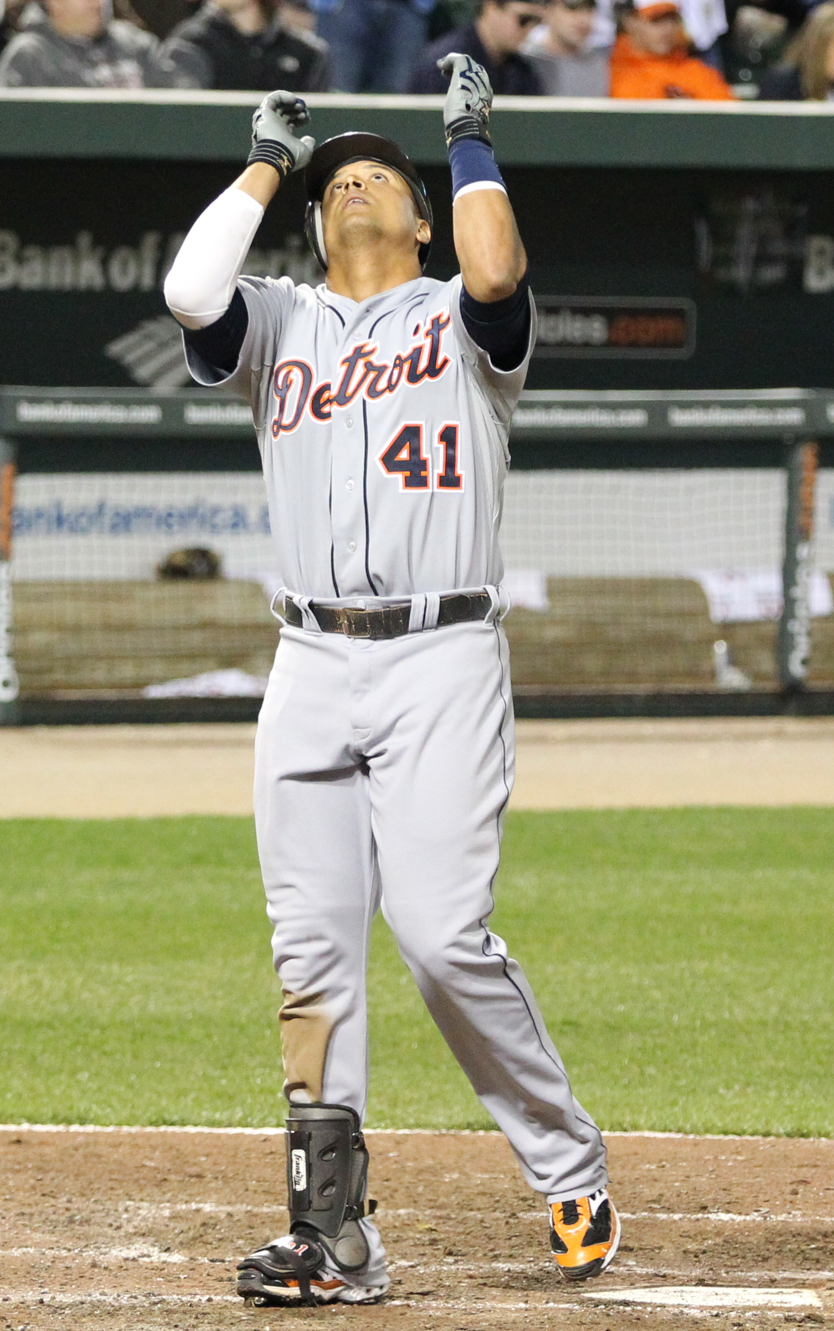 Víctor Martínez #41 of the Detroit Tigers celebrates after hitting a home run in the fifth inning against the Baltimore Orioles at Oriole Park at Camden Yards on April 6, 2011 in Baltimore, Maryland. The Tigers won the game 7-3.